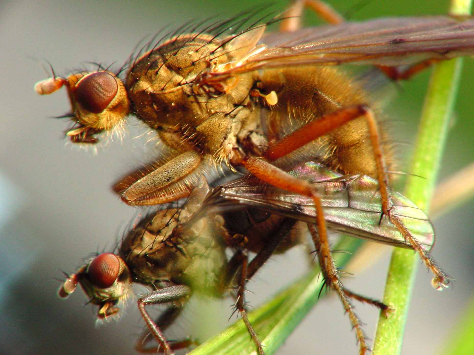 Mating Dung Flies (Scatophaga sp.). Portland, Oregon.